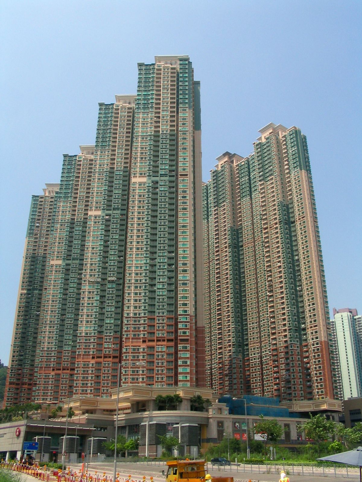 都會駅（左）及城中駅 Metro Town (Left) & Le Point